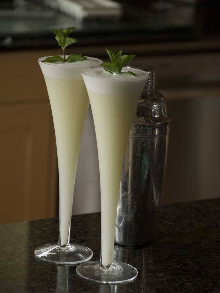 Tropical Gin Fizz Cocktail